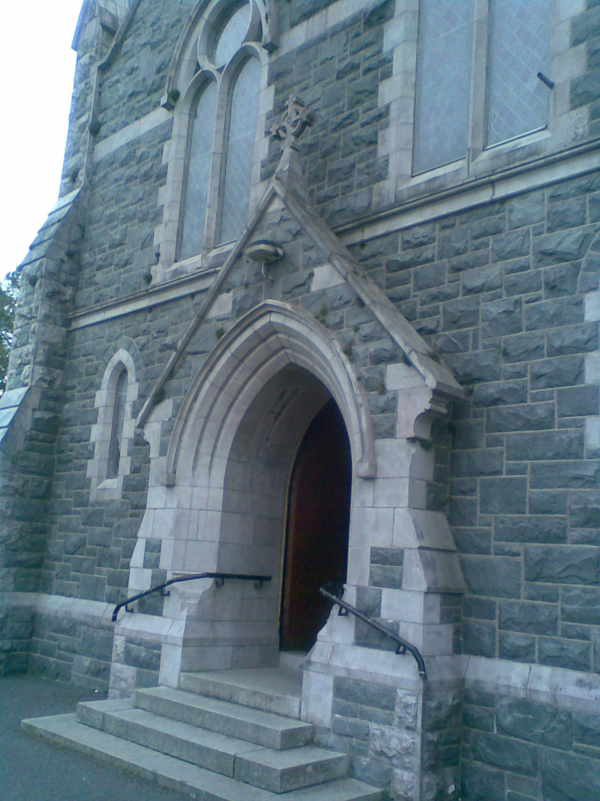 Entrance to Naomh Padraig Church, Ballymacnab, N. Ireland.